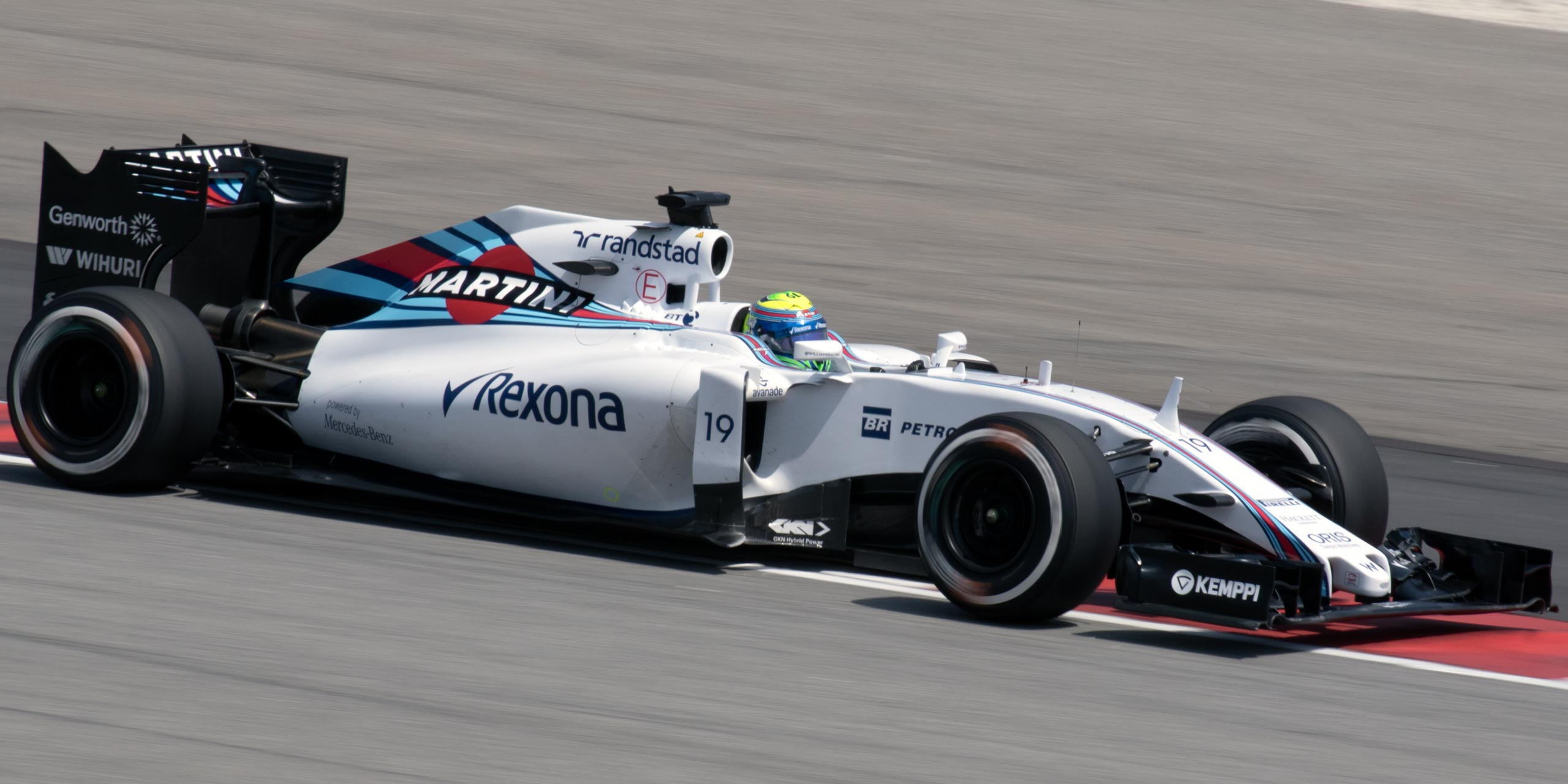 Formula One 2015 Rd.2 Malaysian GP: Felipe Massa (WilliamsF1)